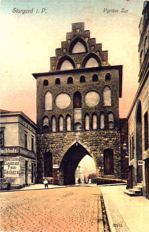 Pyrzycka Stargard